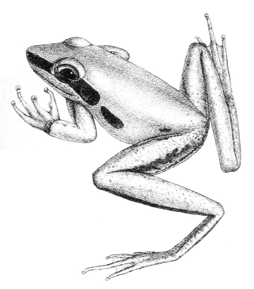 Hyla nigrofrenata = Litoria nigrofrenata